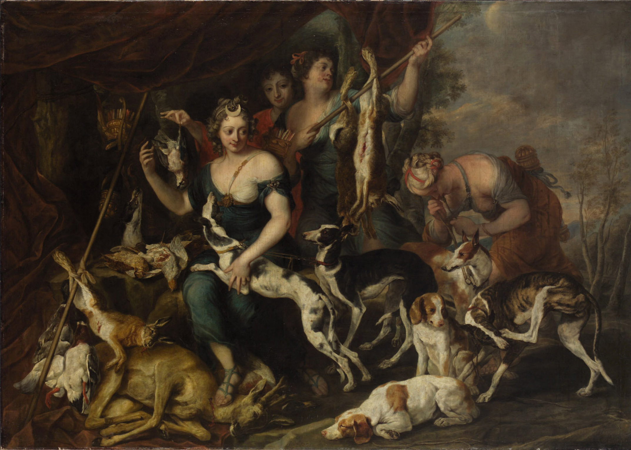 Figures by Thomas Willeboirts Bosschaert.